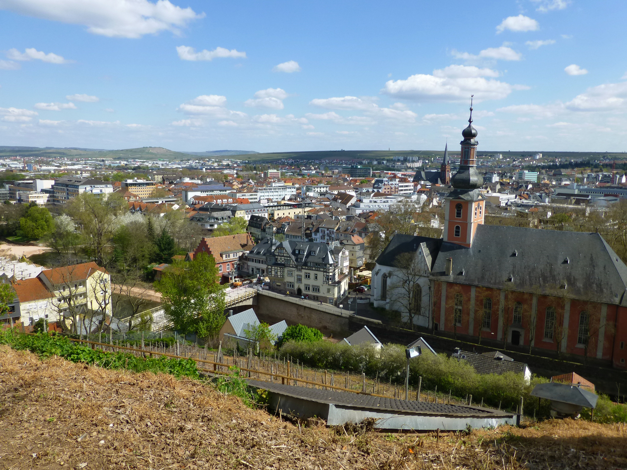 Bad Kreuznach and Paulus church, viewed from the Kauzenberg.